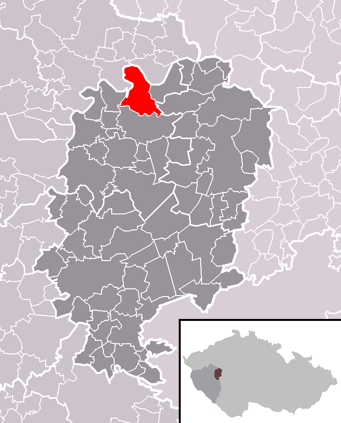 Location of Kladruby municipality within Rokycany District and within identical administrative area of Rokycany as a Municipality with Extended Competence.